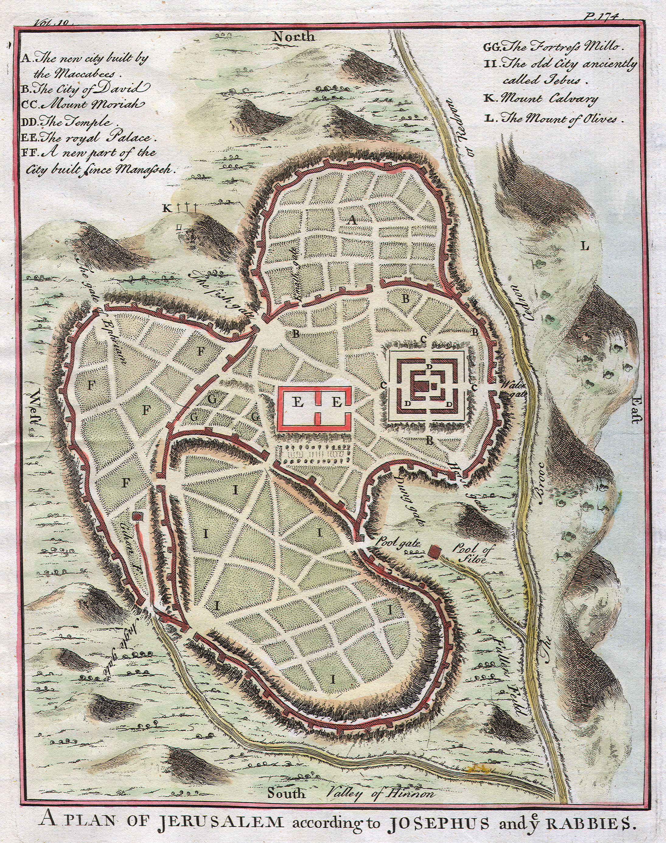 This is a fascinating c. 1730 map of Jerusalem. Important buildings such as the Temple, Solomon’s Palace, and the various quarters. The original gates are also labeled. To the east the Mount of Olives is depicted.